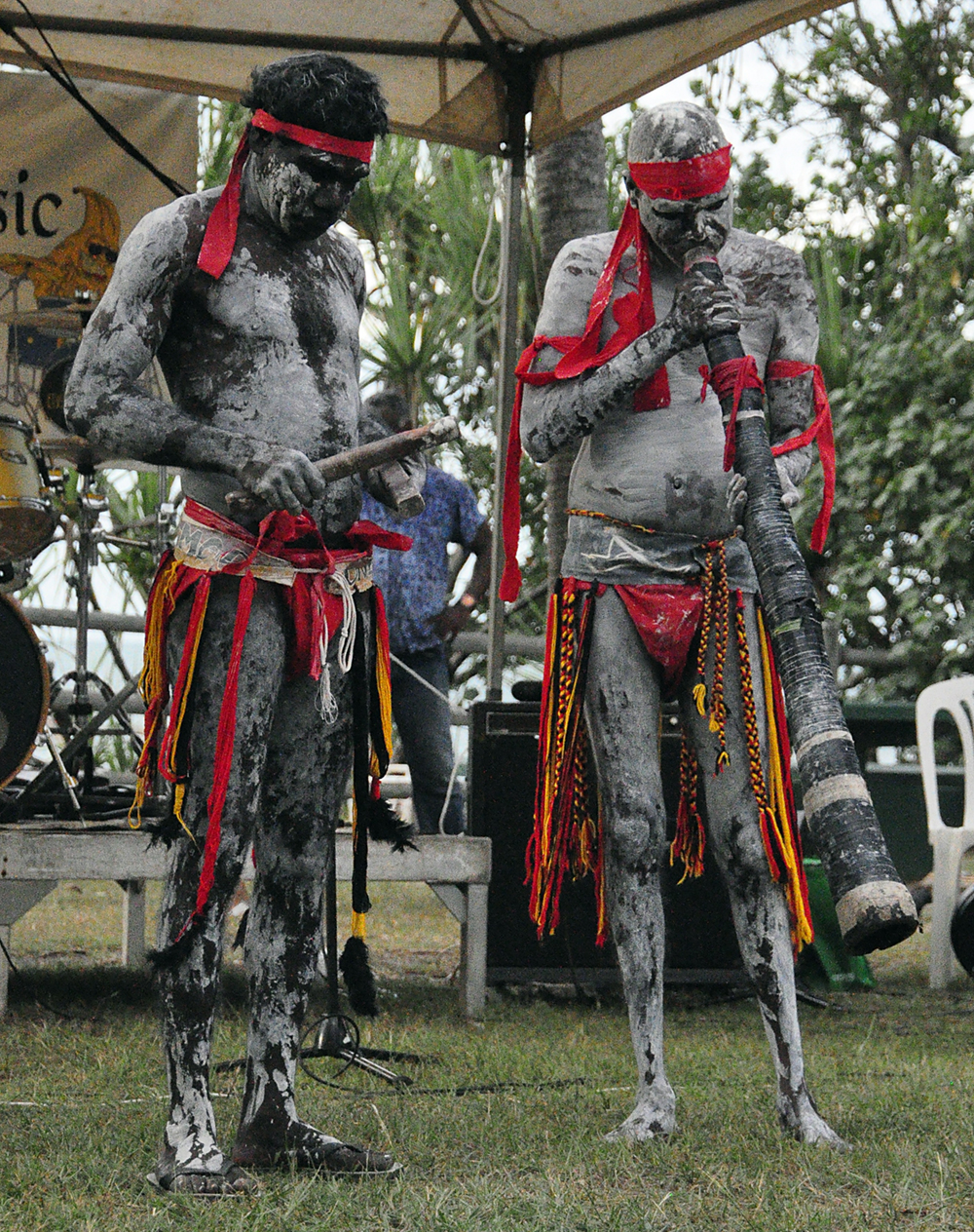 The Didgeridu and clap stick players of the One Mob Different Country dance troupe at the Nightcliff Seabreeze Festival 04 May 2013